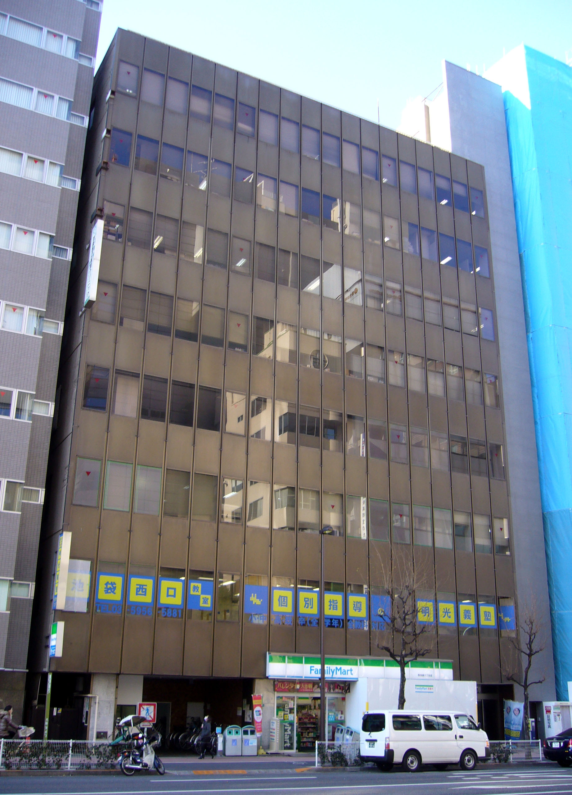 Meiko Building (Office building in Tokyo, Japan) - The headquarters of Libro